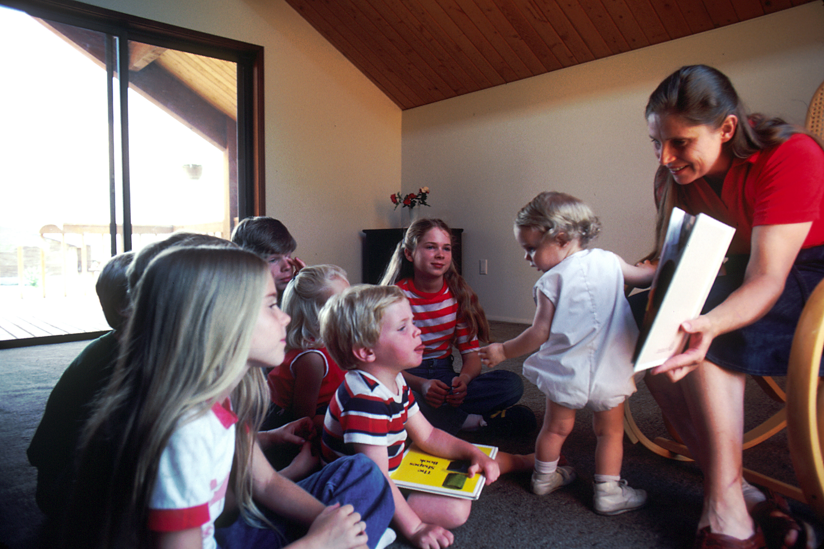 Title Family Reading Description A mother reading a story to several children. She is seated in a rocking chair and they are surrounding her on the floor in a family room setting. These people are part of a Mormon family. The Mormons are presently being studied for their low cancer death rate, well below the national average. Topics/Categories People -- Adult People -- Child People -- Family/Friends Type Color, Photo Source National Cancer Institute